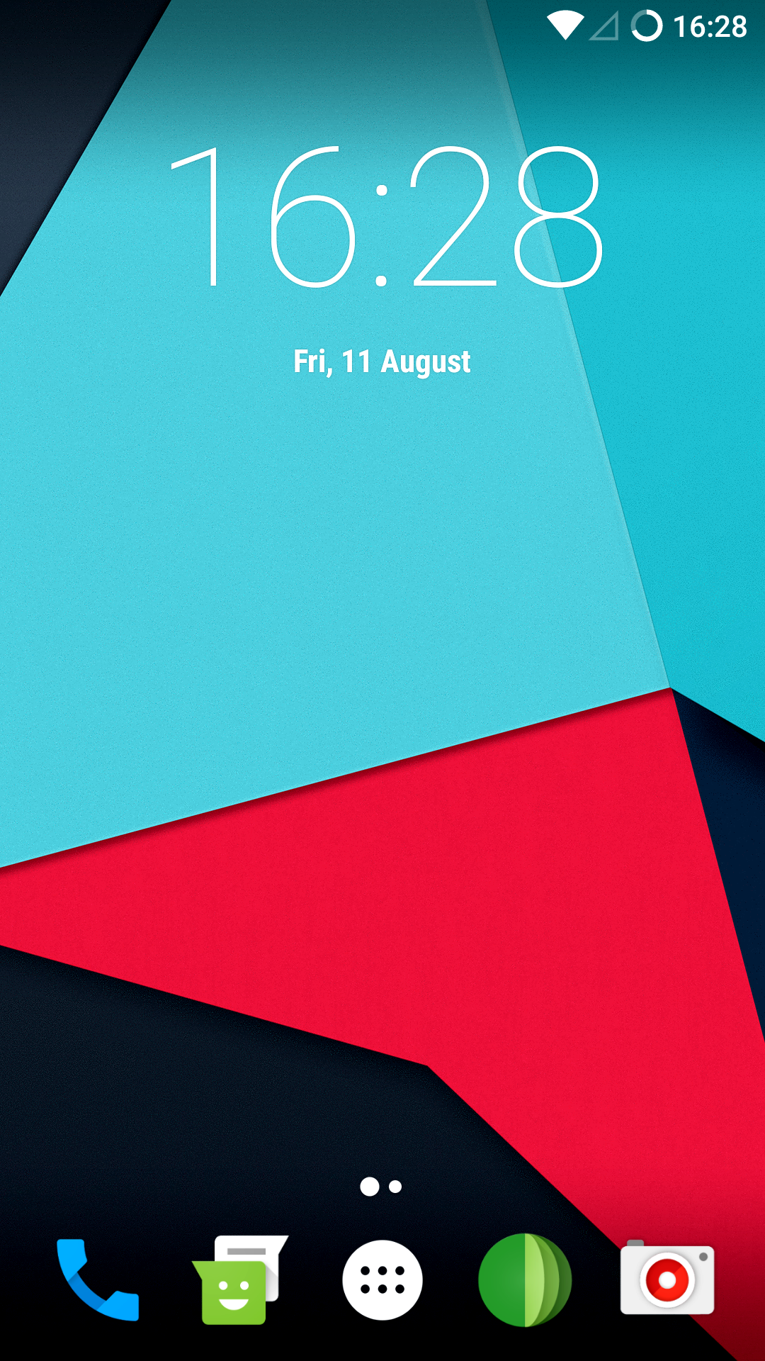 LineageOS 14.1 home screen after default install on a Samsung SM-G900F.